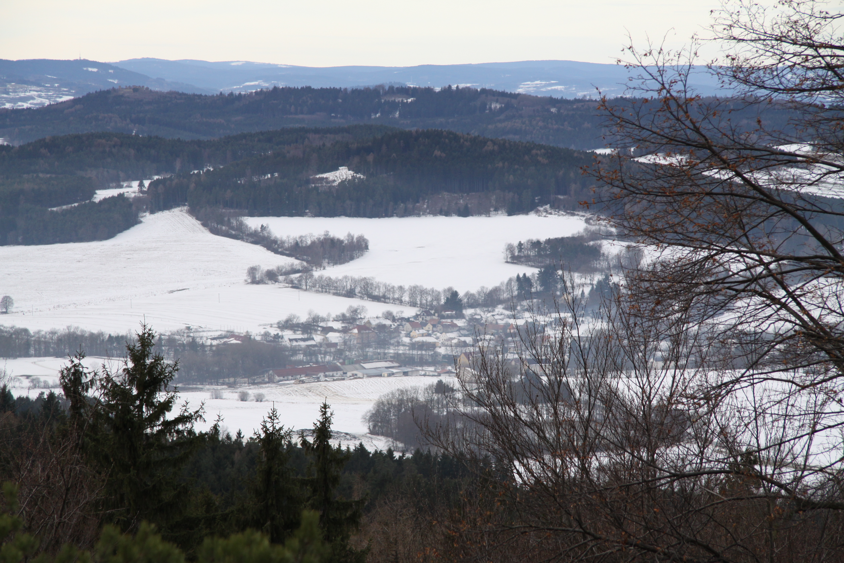 Natural reservation Skočický hrad near Skočice, Strakonice District, Czech Republic - Google Maps - Google Earth